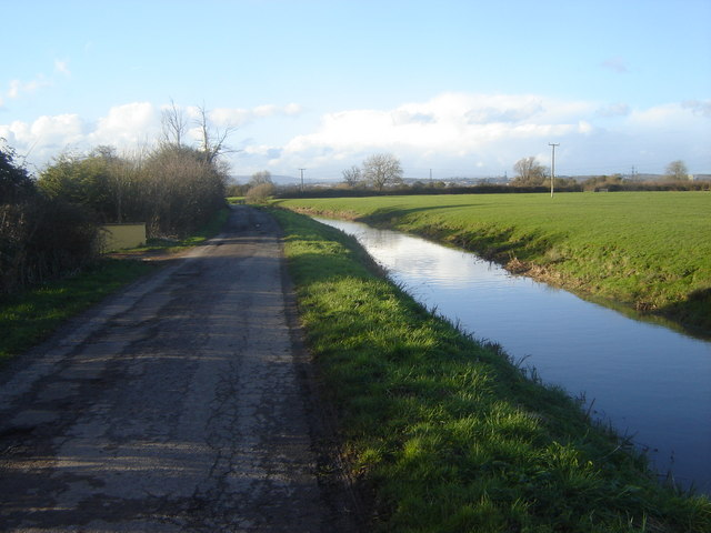 A reen (drainage ditch) by Chapel Road, Goldcliff, Newport, Wales